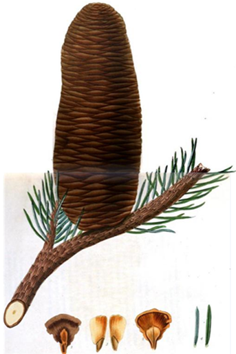 Picture of Abies amabilis